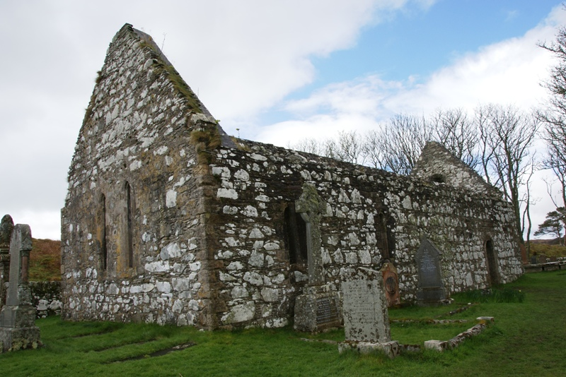 Kildalton Church, Kildalton, Islay, Argyll and Bute, Scotland. View from north east.